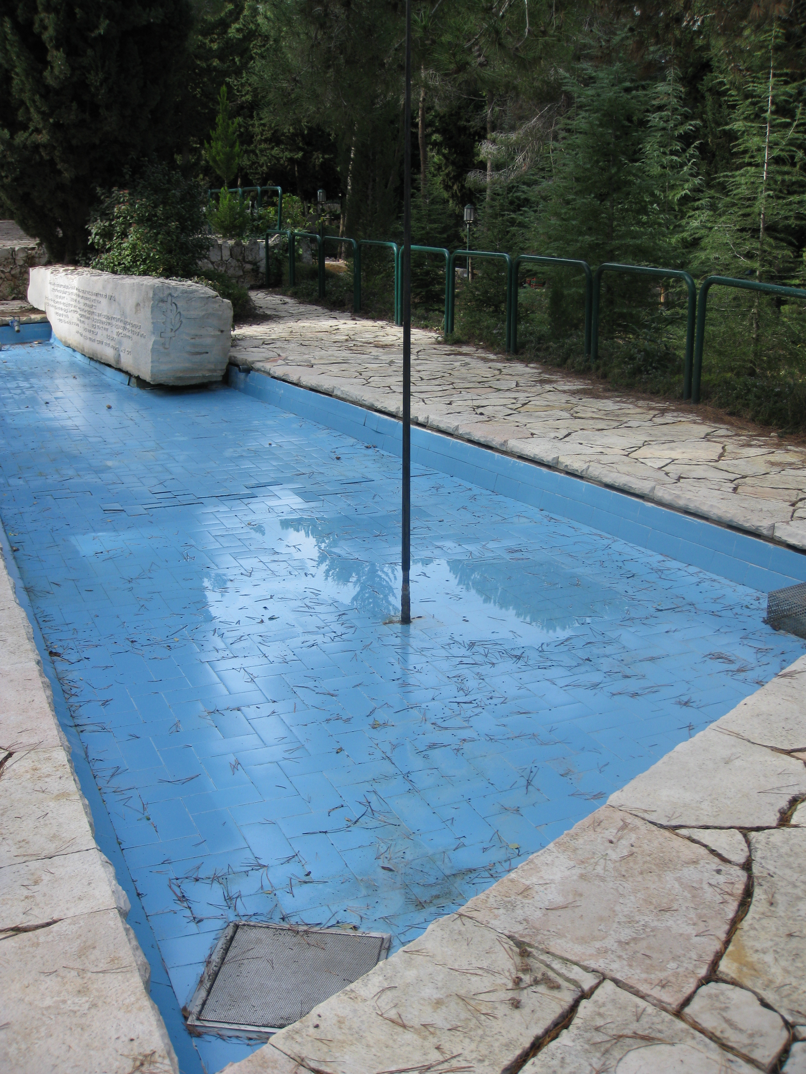 Memorial for the Kaf Gimel (23) Boat Seamen